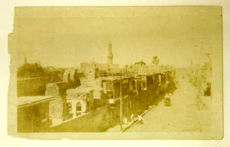 Al Rasheed Street in Baghdad and the minaret in the middle of the picture for the Mosque of alkhasikii, Iraq, World War I, 1916-1919